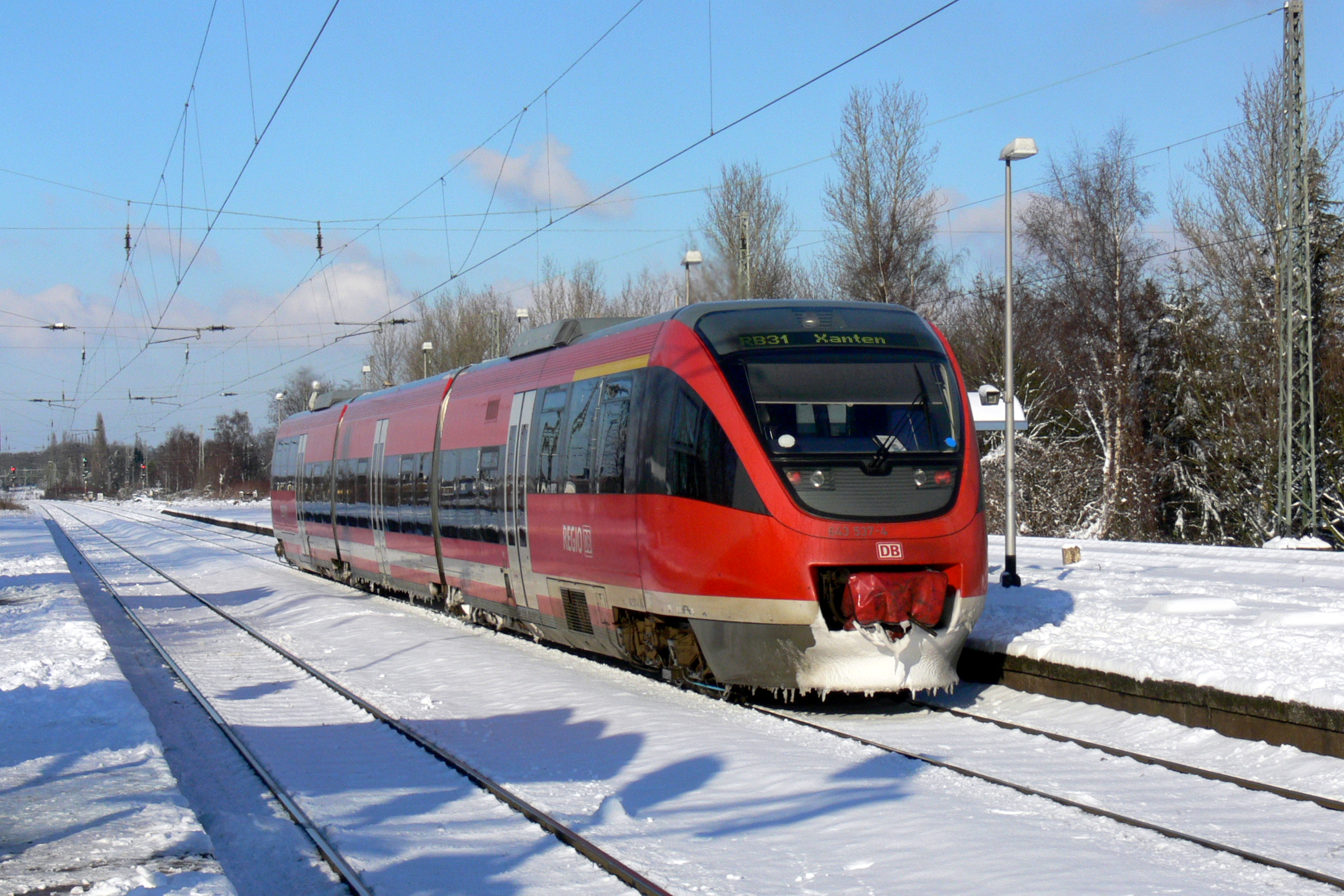 Bombardier Talent of DBAG in Moers at 5th january 2009